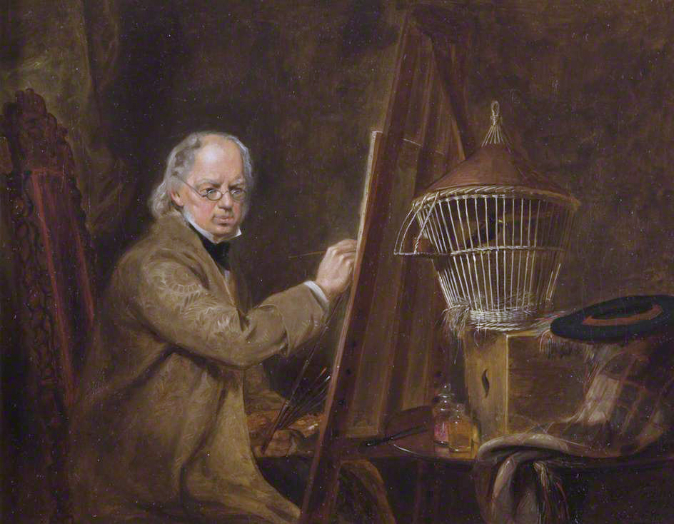 Self portrait oil on canvas 34 x 43.5 cm 1854